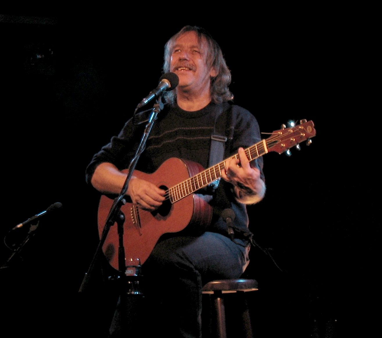 Jaromír Nohavica in concert (Poznań, Poland 2004)